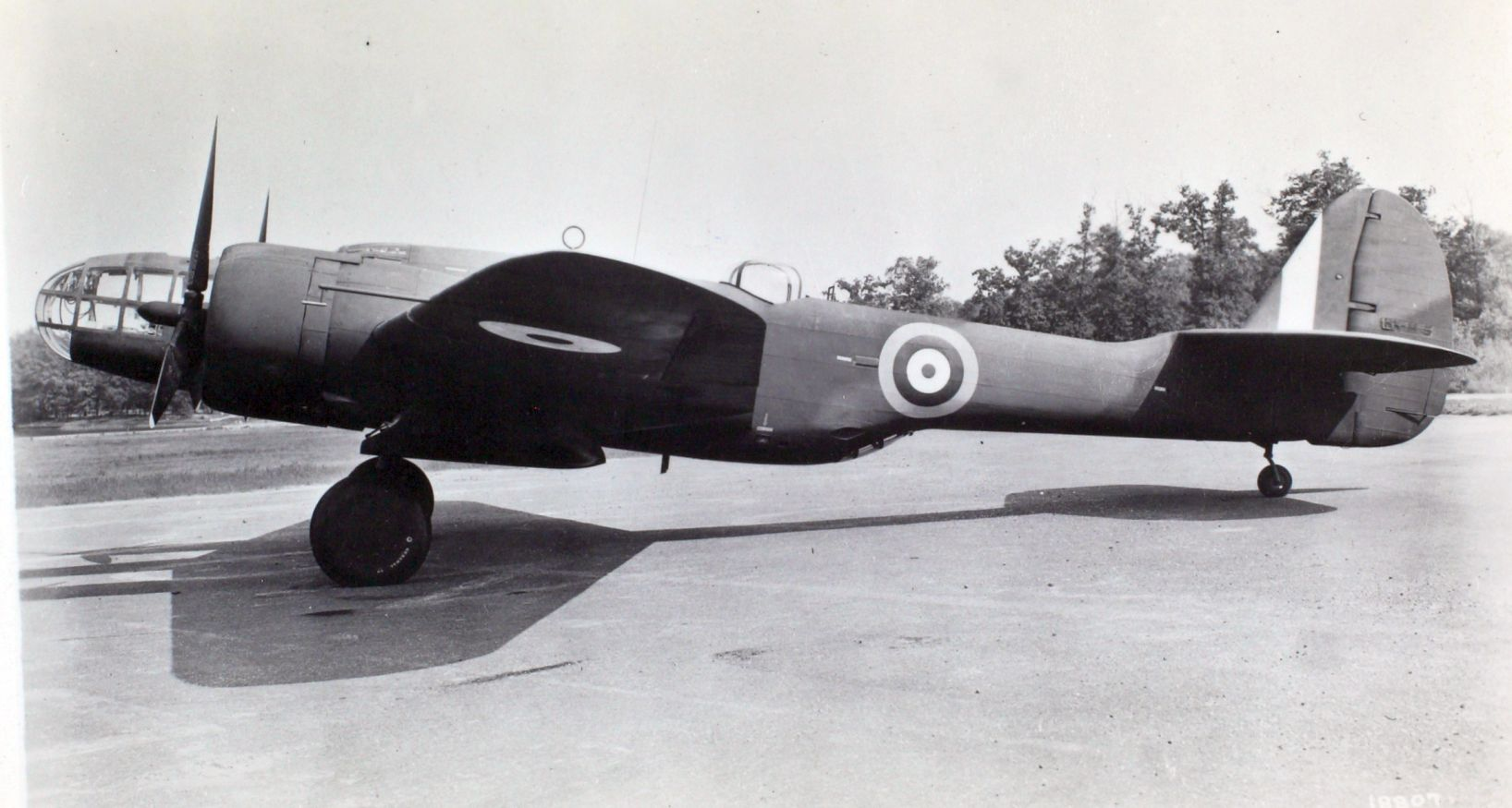 Image from the Charles Daniels Photo Collection album "British Aircraft." SOURCE INSTITUTION: San Diego Air and Space Museum Archive